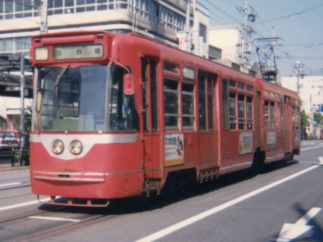 Nagoya Railroad tram type 870 at Tetsumeicho.